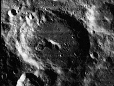 LOIV-070-H3